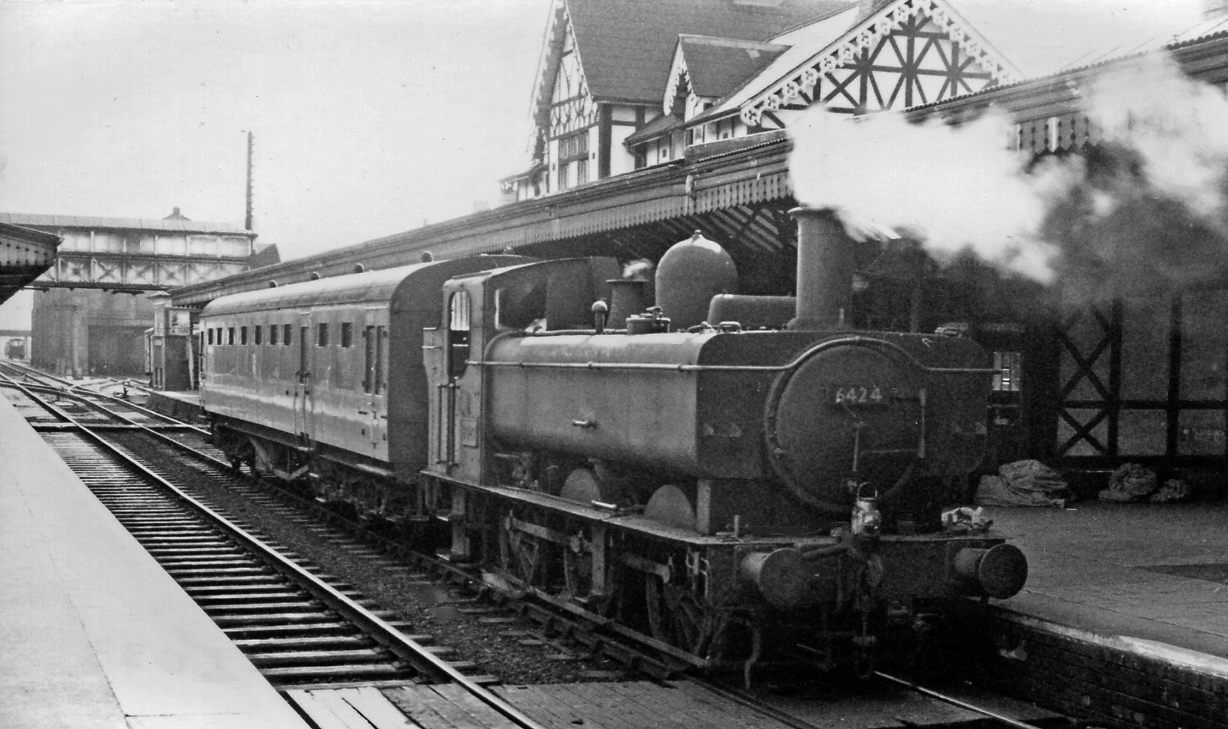 Kidderminster station, with auto-train to Bewdley. View southward, towards Hartlebury and Worcester, also Bewdley. In 1963 - a few years before the BR service ceased on 5/1/70, to be taken over eventaully by the Severn Valley Railway, an auto train from Bewdley headed by auto-fitted 0-6-0PT No. 6424 (built 9/35) is at the Down platform. Note the unique 'half-timbered' architecture of the station.